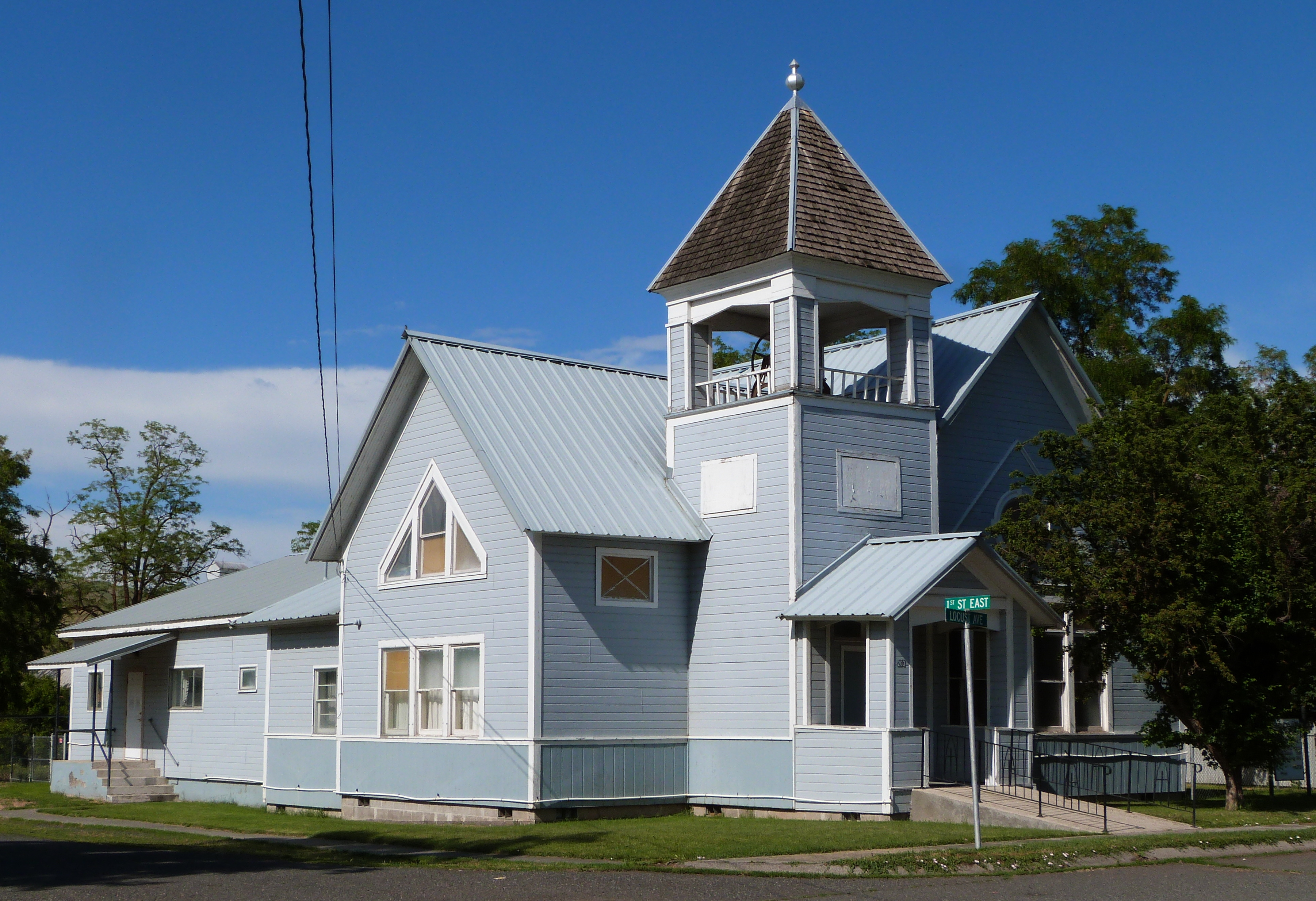 The historic First Presbyterian Church (built 1909), located at the intersection of Locust Avenue and 1st Street East in Lapwai, Idaho, United States, is listed on the US National Register of Historic Places. As of the photo date, it is named the Lapwai Valley Presbyterian Church.